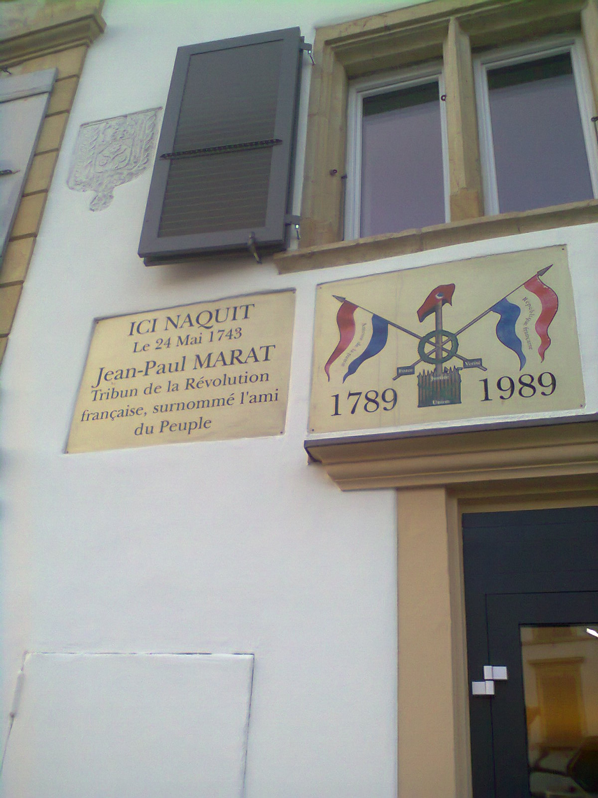 Marat Boudry 200315